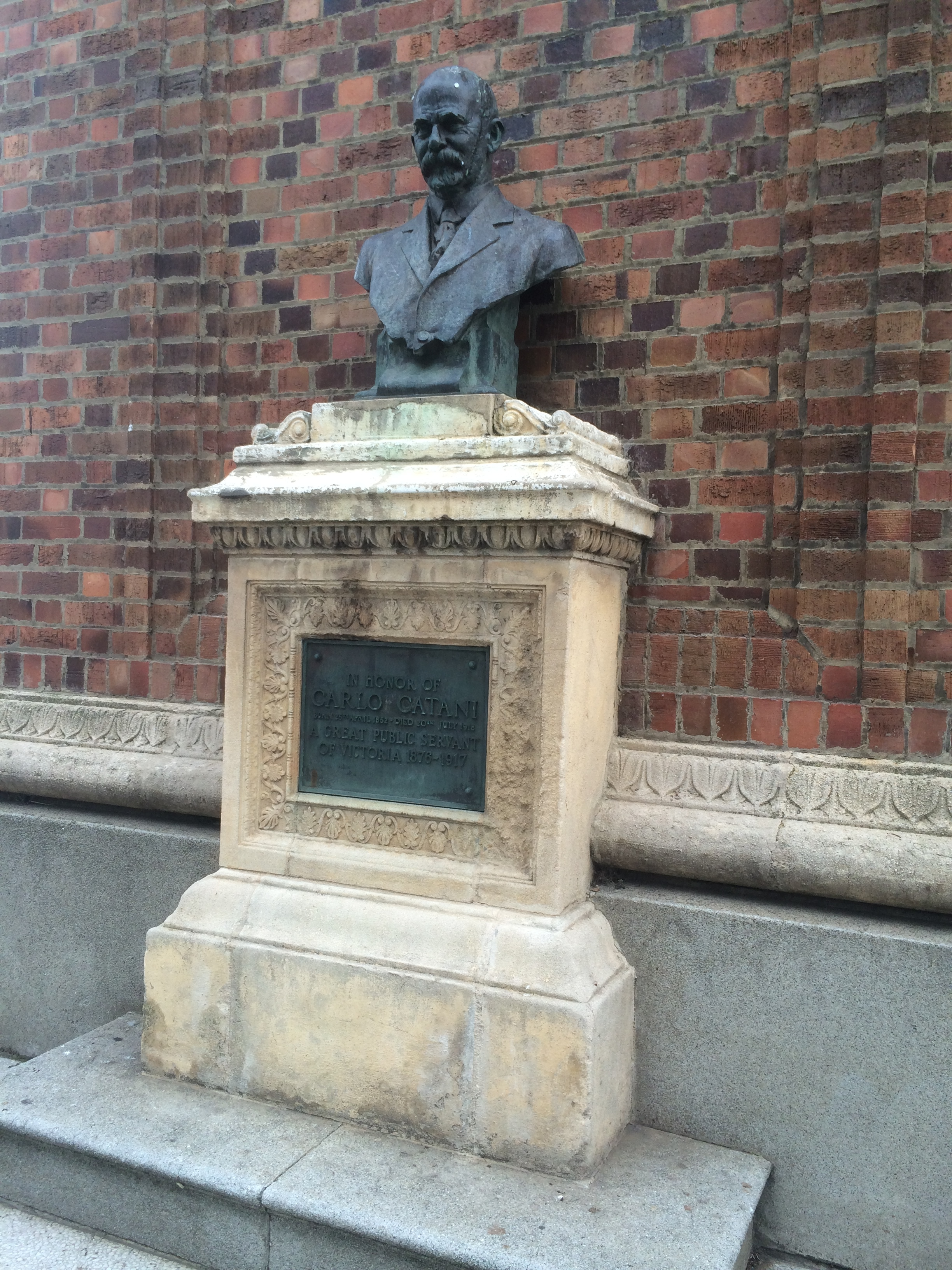 Catani Memorial Statue & Plaque: in Honour of Carlo Catani